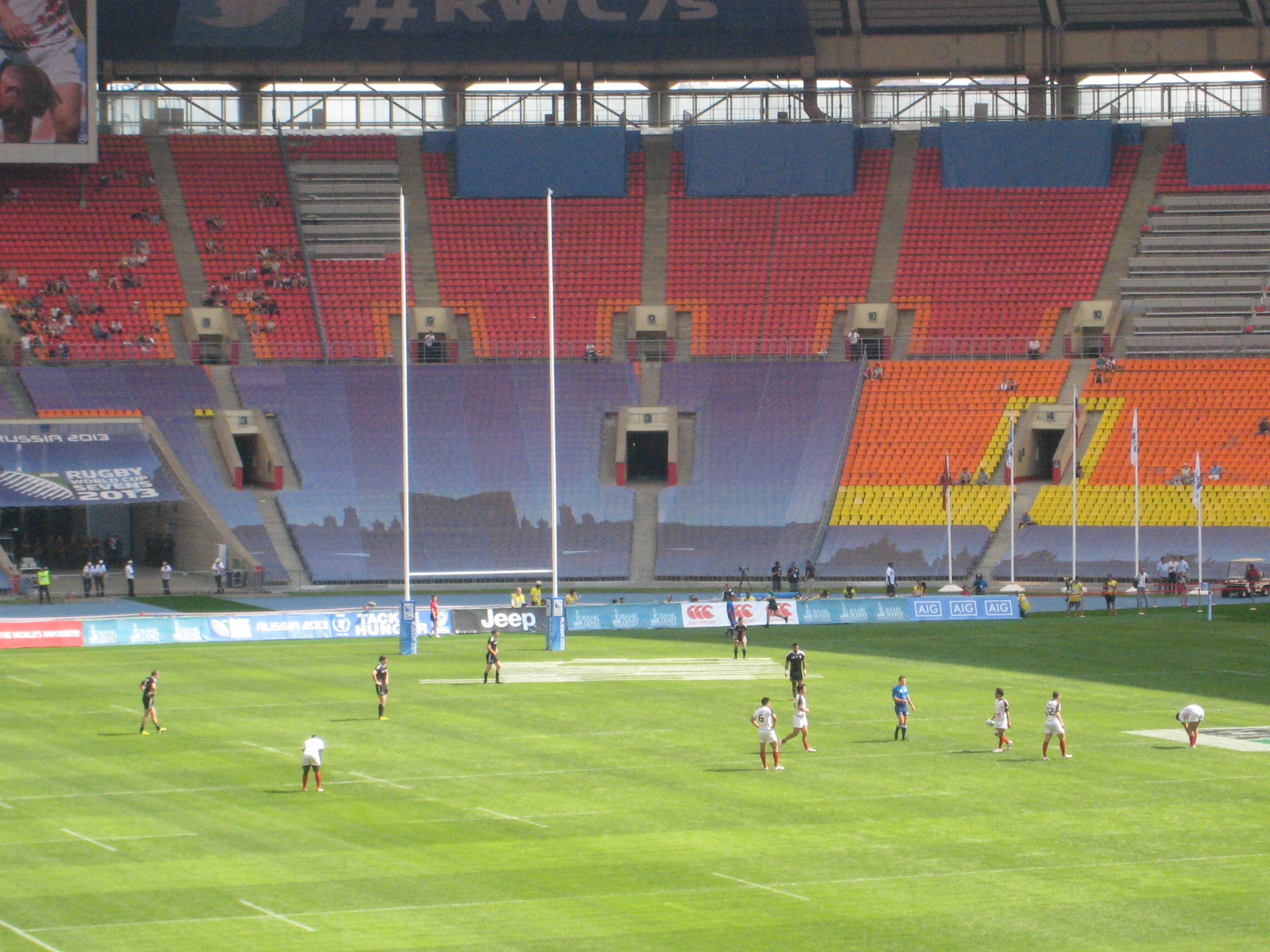 First Day of the 2013 Rugby World Cup Sevens in Moscow